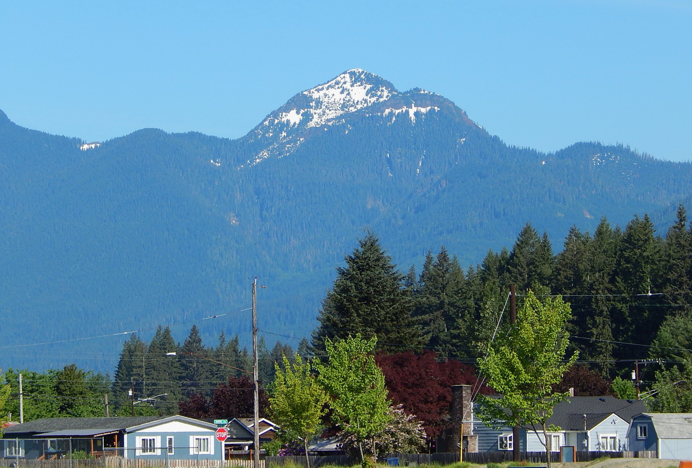 Round Mountain seen from Old School Park in Darrington, WA